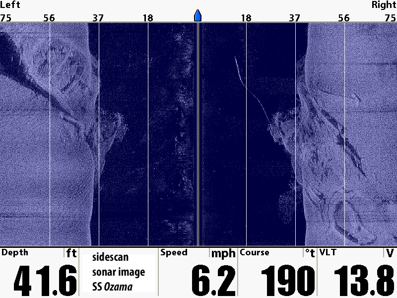 Sonar image of SS Ozama shipwreck made with Humminbird 1198c Side Imaging Sonar. The Bow of the Ozama is clearly visible on the left hand side of the image. The vertical center line in the image is the research vessel's track and the dark blue on each side of it is the water column over the bottom. The Ozama's steam engine is visible in the water column on both the left and right hand sides of the image.